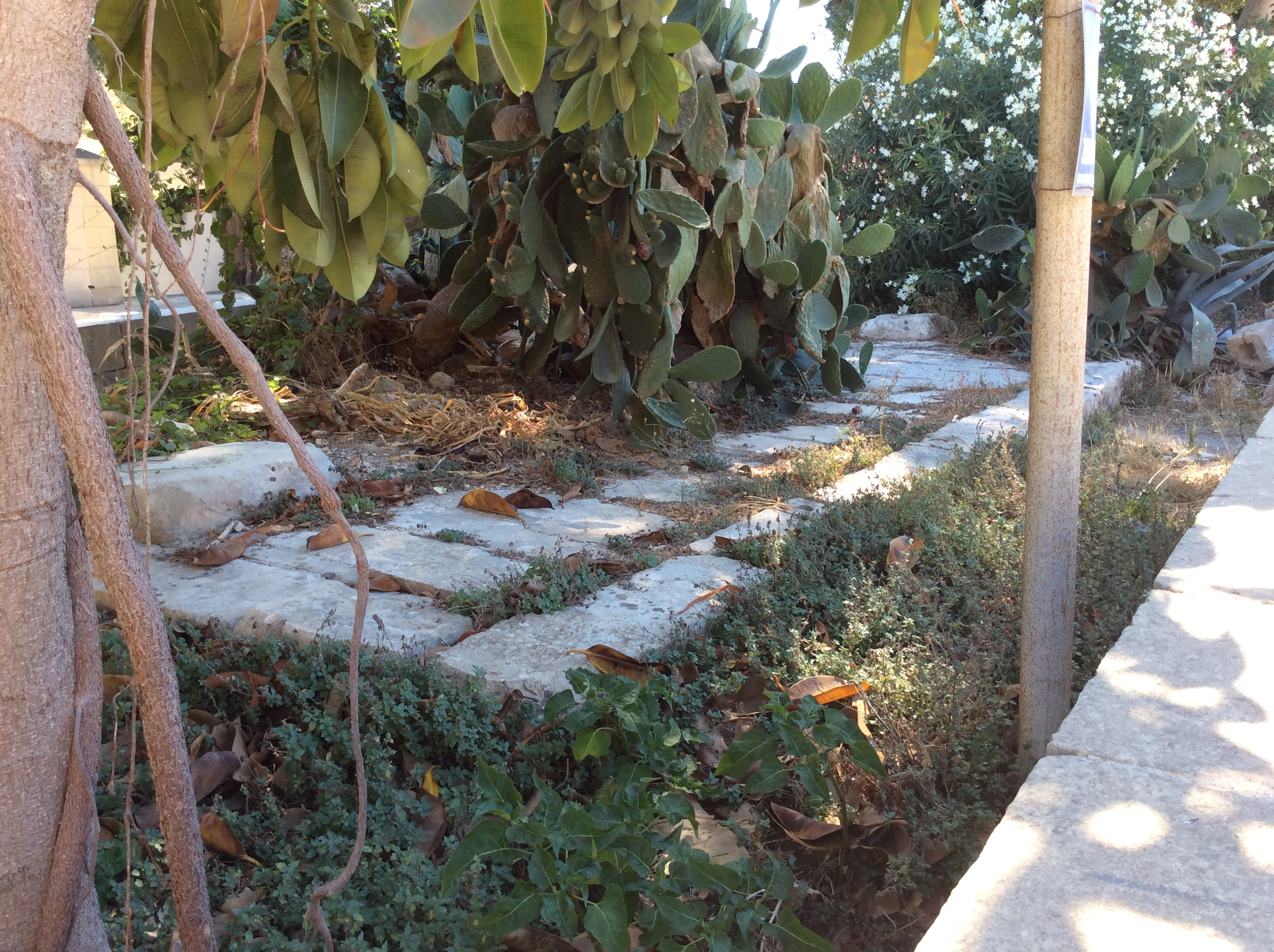 Start of aqueduct above ground